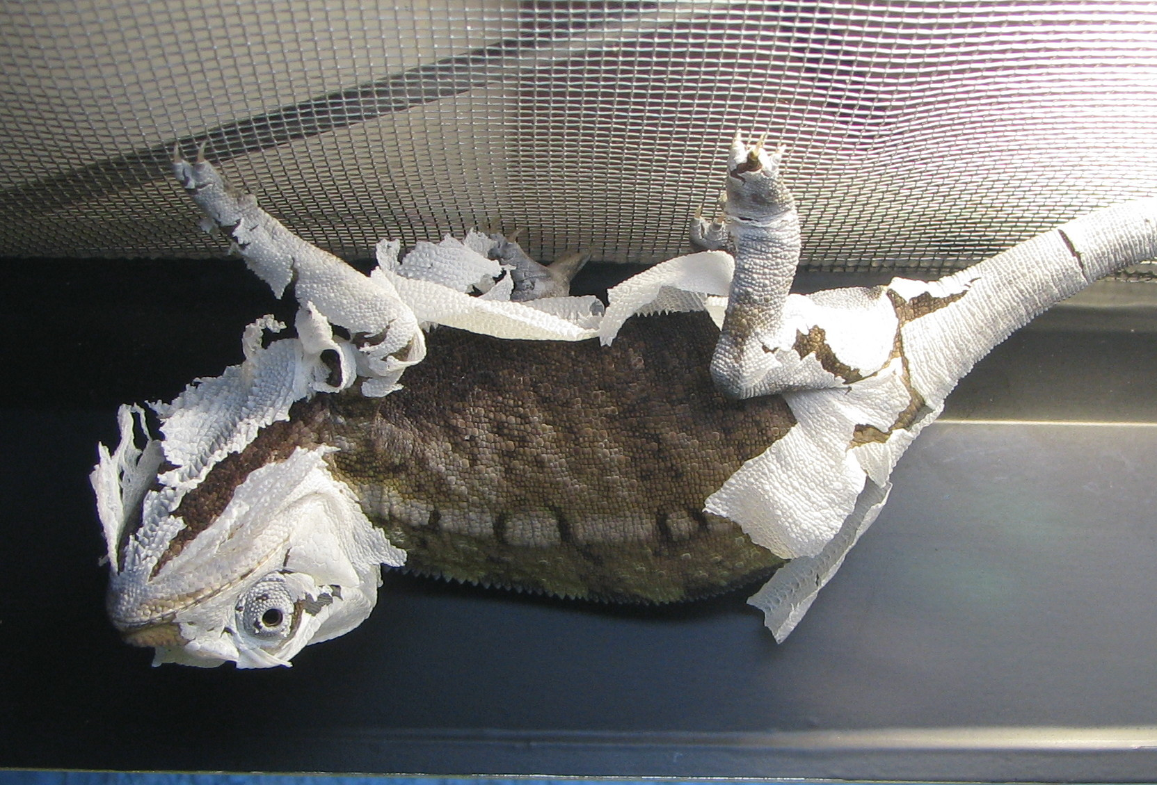 shedding Furcifer pardalis